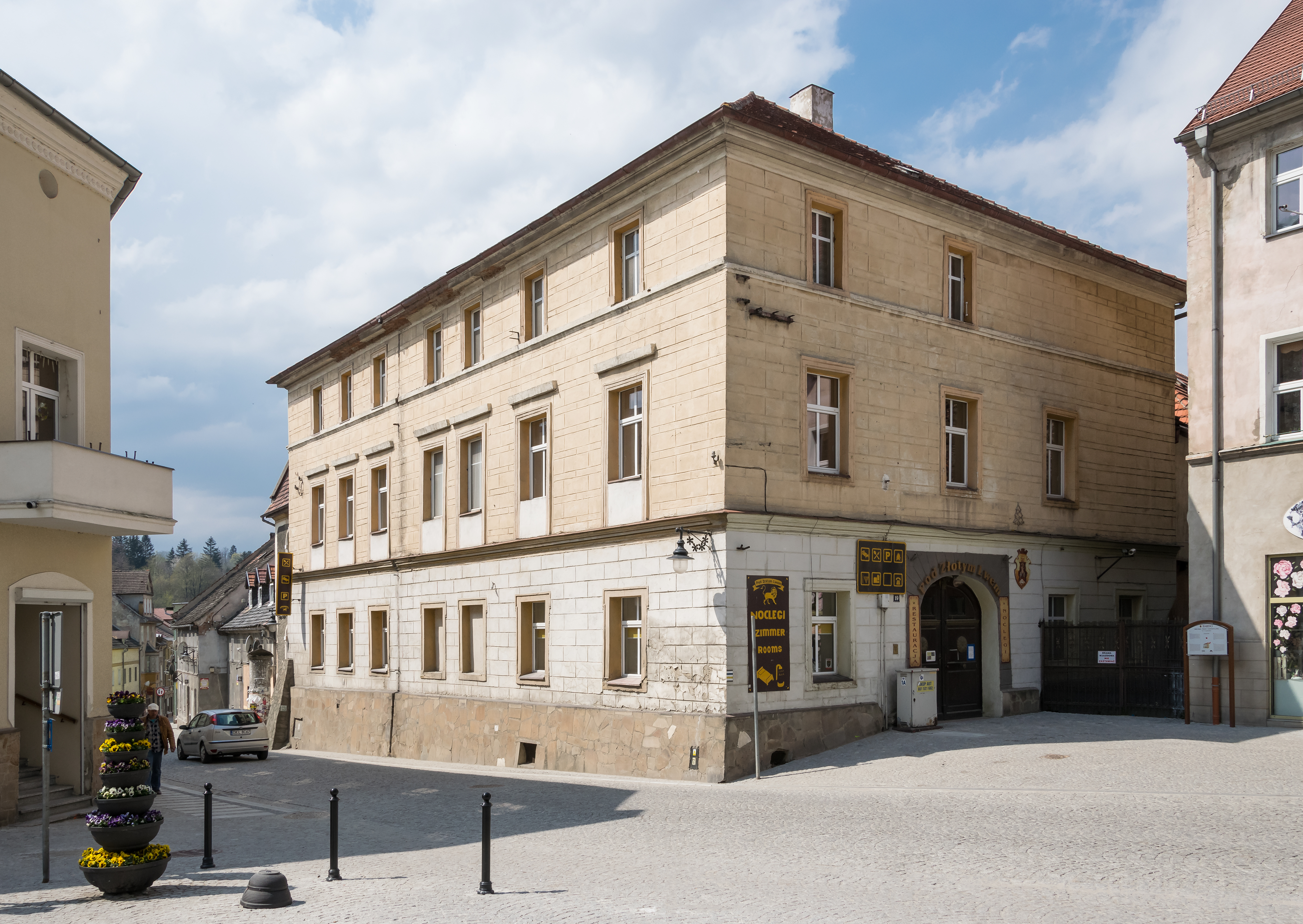 Pod Złotym Lwem inn in Bardo Wikidata has entry Q30084112 with data related to this item.